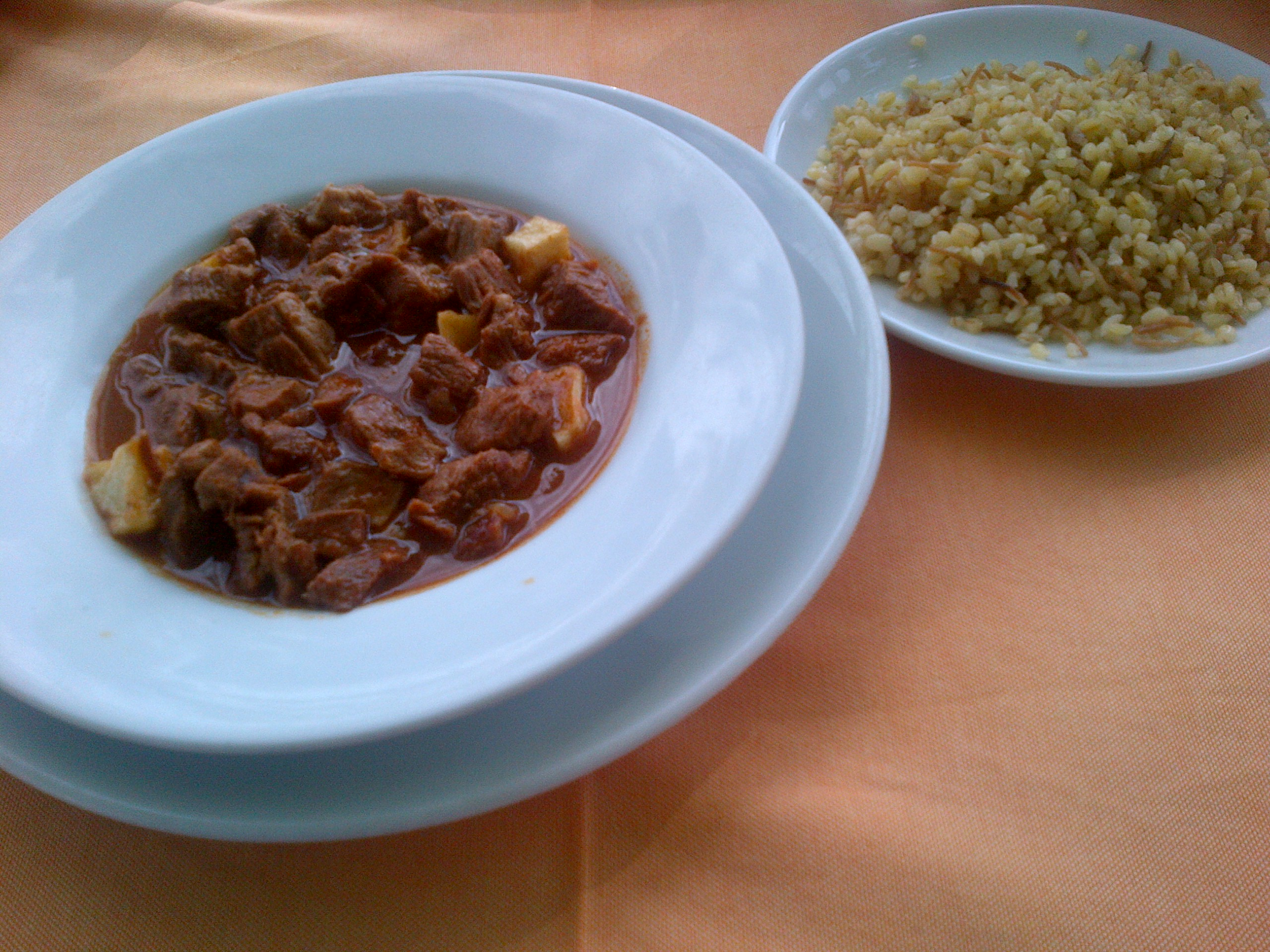 "Şehriyeli bulgur pilavı (Turkish pilaf made with bulgur and pasta) accompanying "tas kebabı".